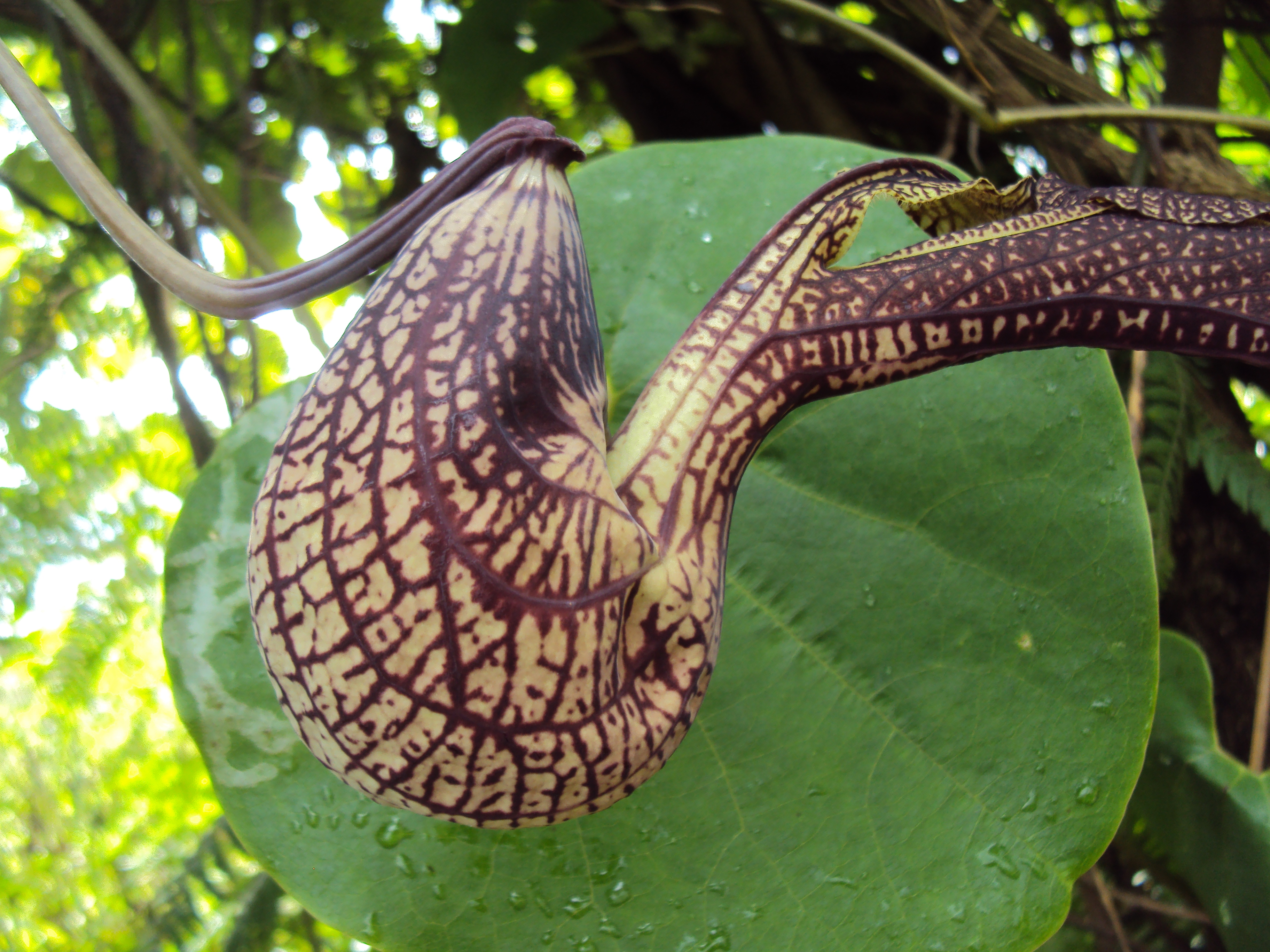 Aristolochia ringens